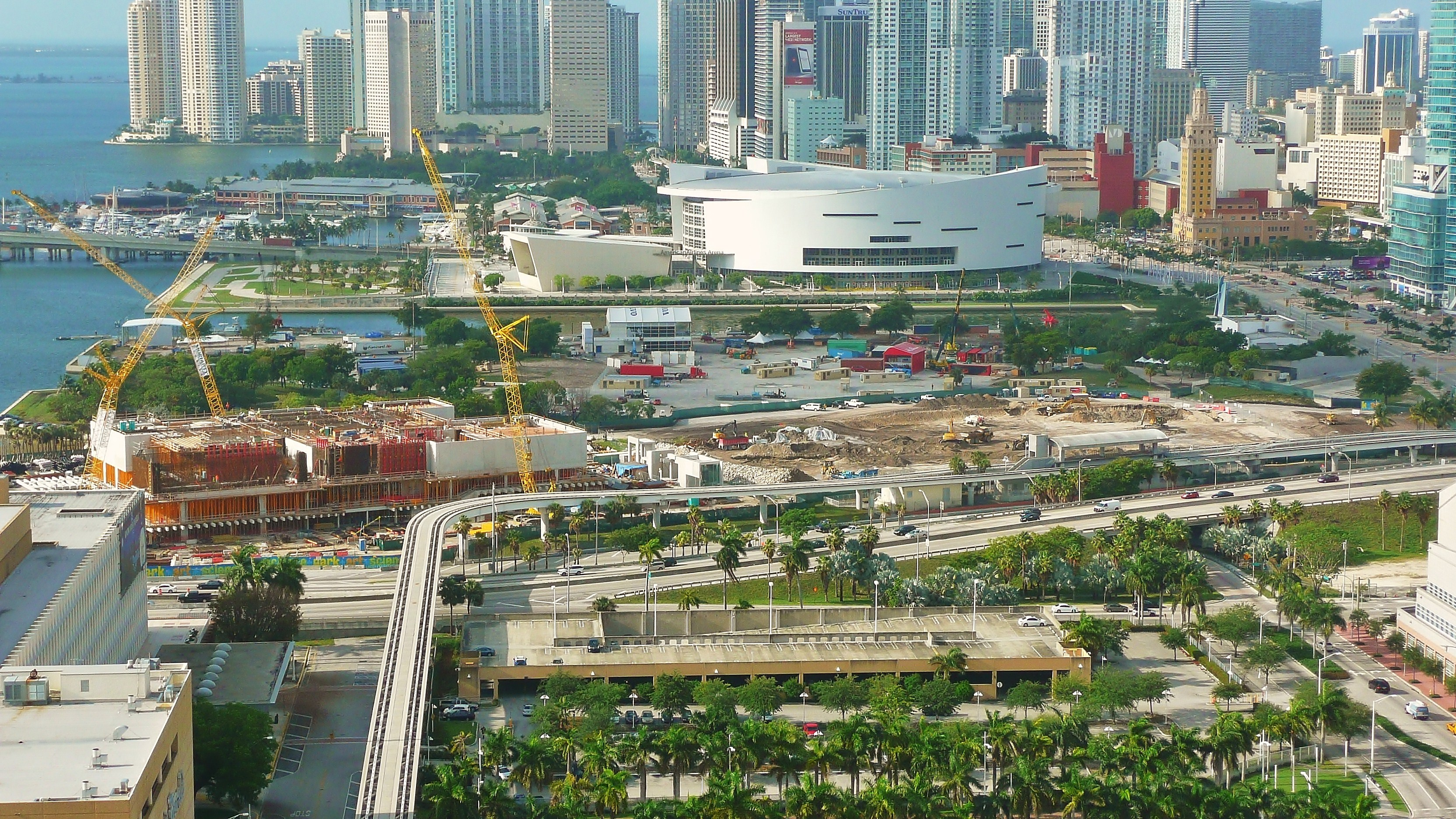 Digital photo taken by Marc Averette. Museum Park in Downtown Miami, Florida, United States.